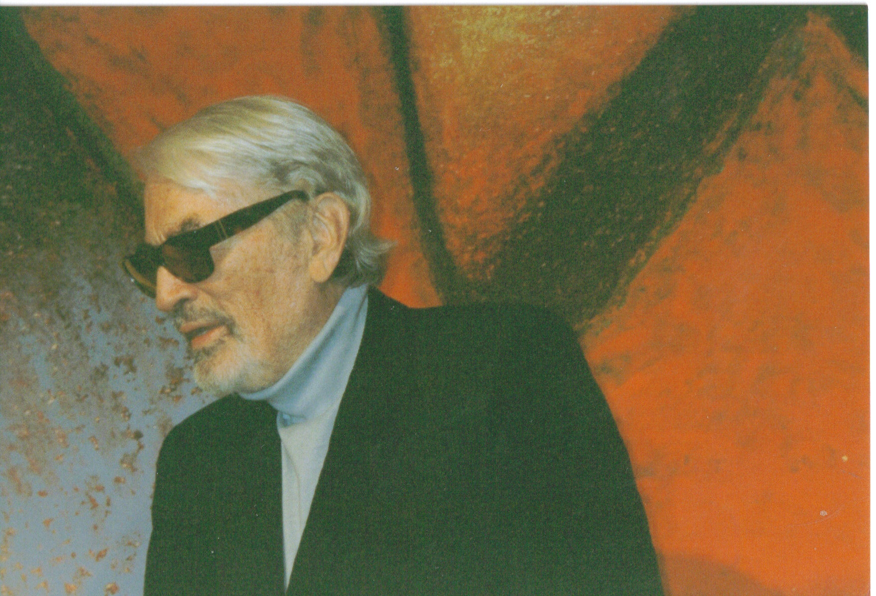 Gregory Peck, Cannes 2000